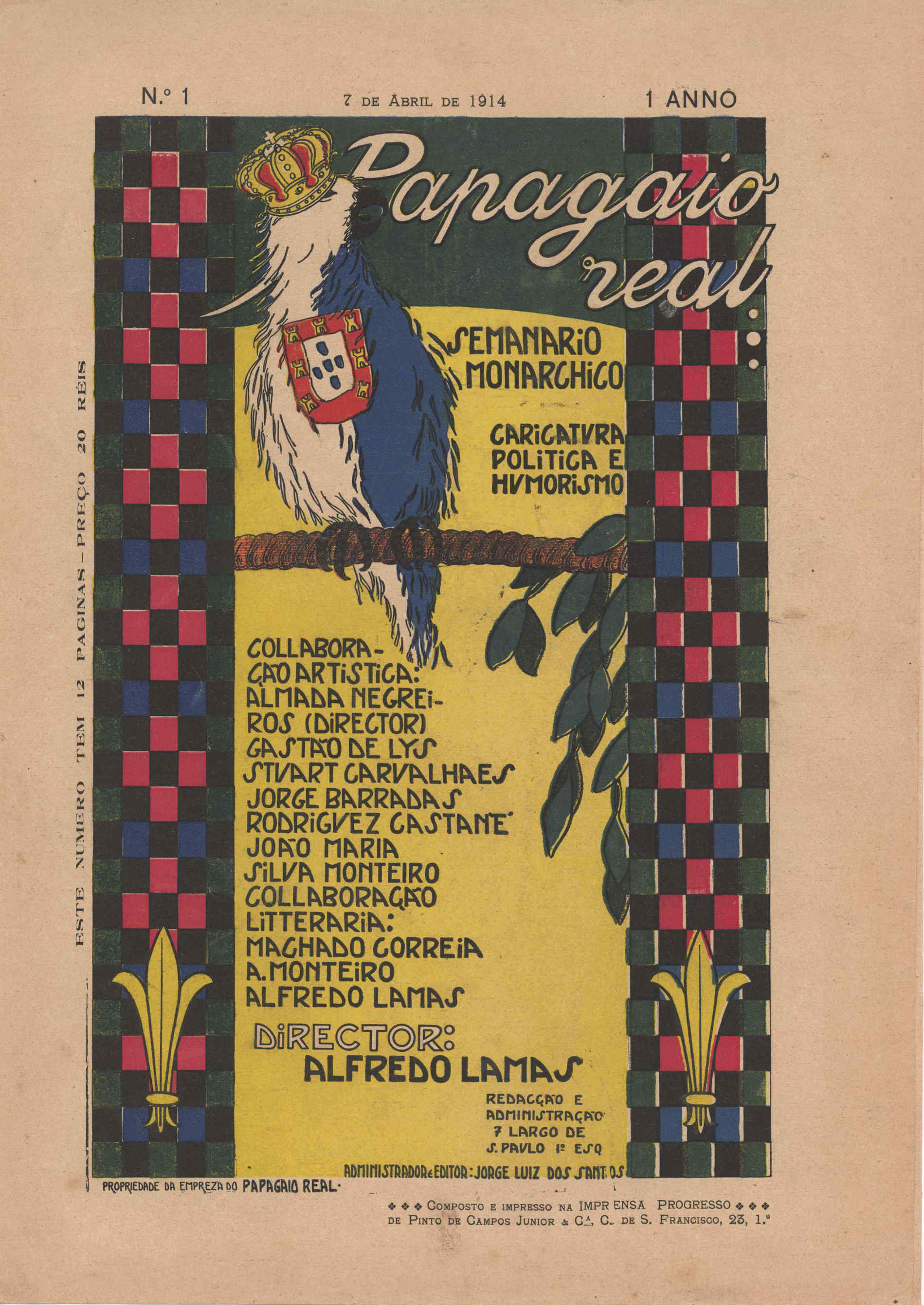 Papagaio Real Magazine, April 7, 1914